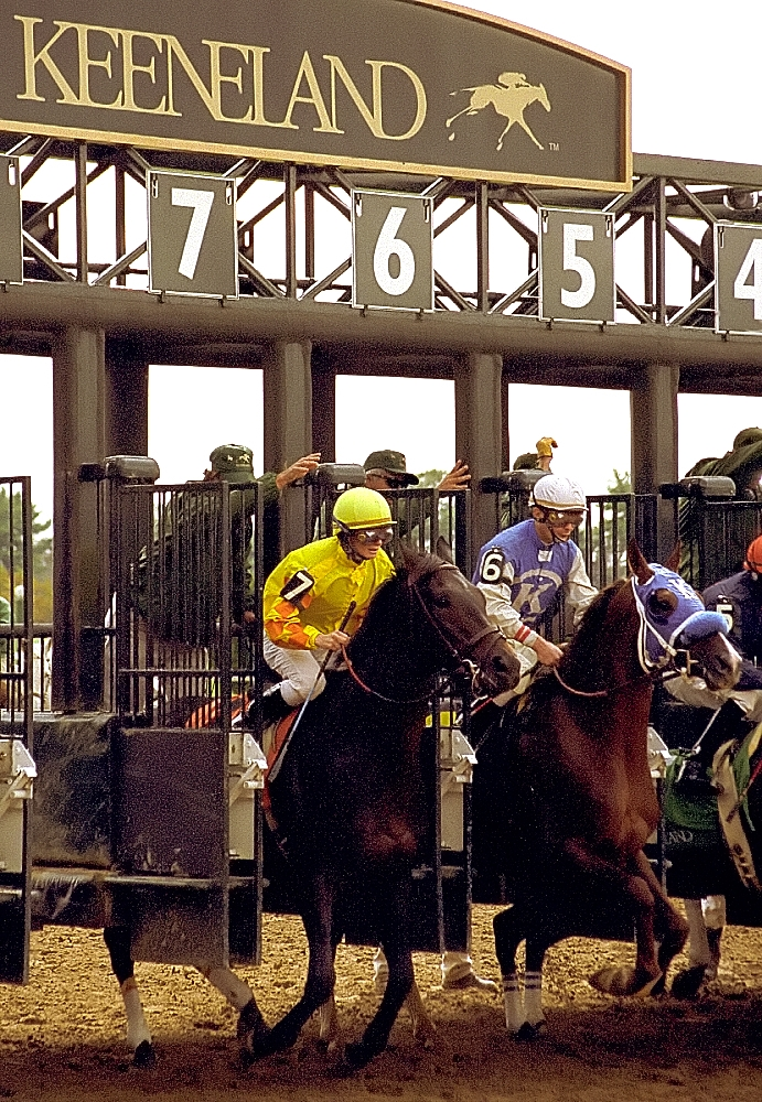 Lexington Kentucky - Keeneland Race Track "Out of the gate"